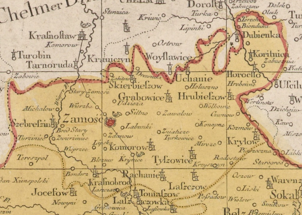 Zamość County of Austrian Galicia around the year 1780